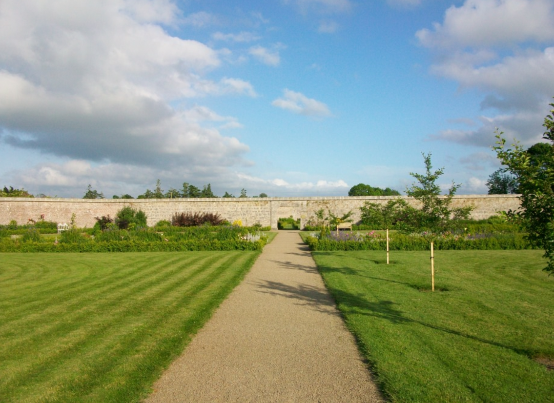 A view of the walled Gardens of Duckett's Grove Ruins, Carlow, Ireland